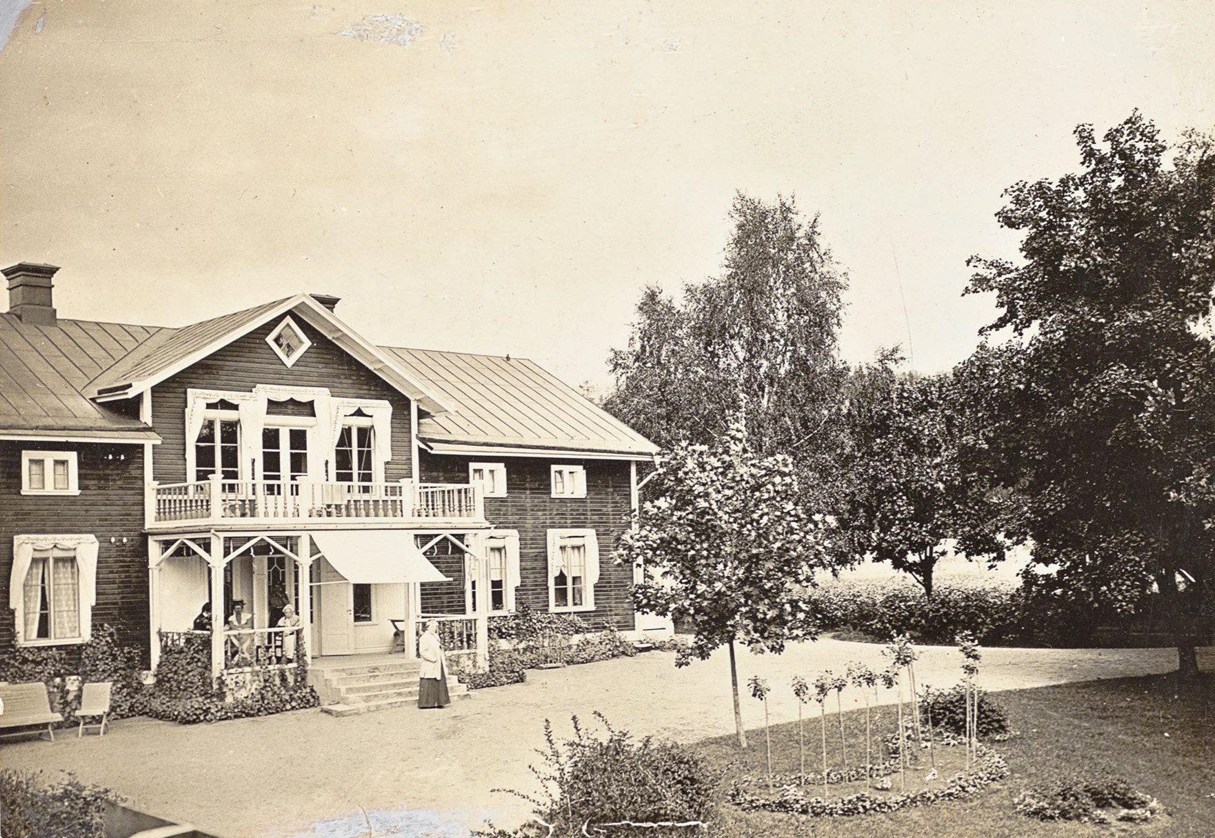 Mårbacka, Sweden 1912